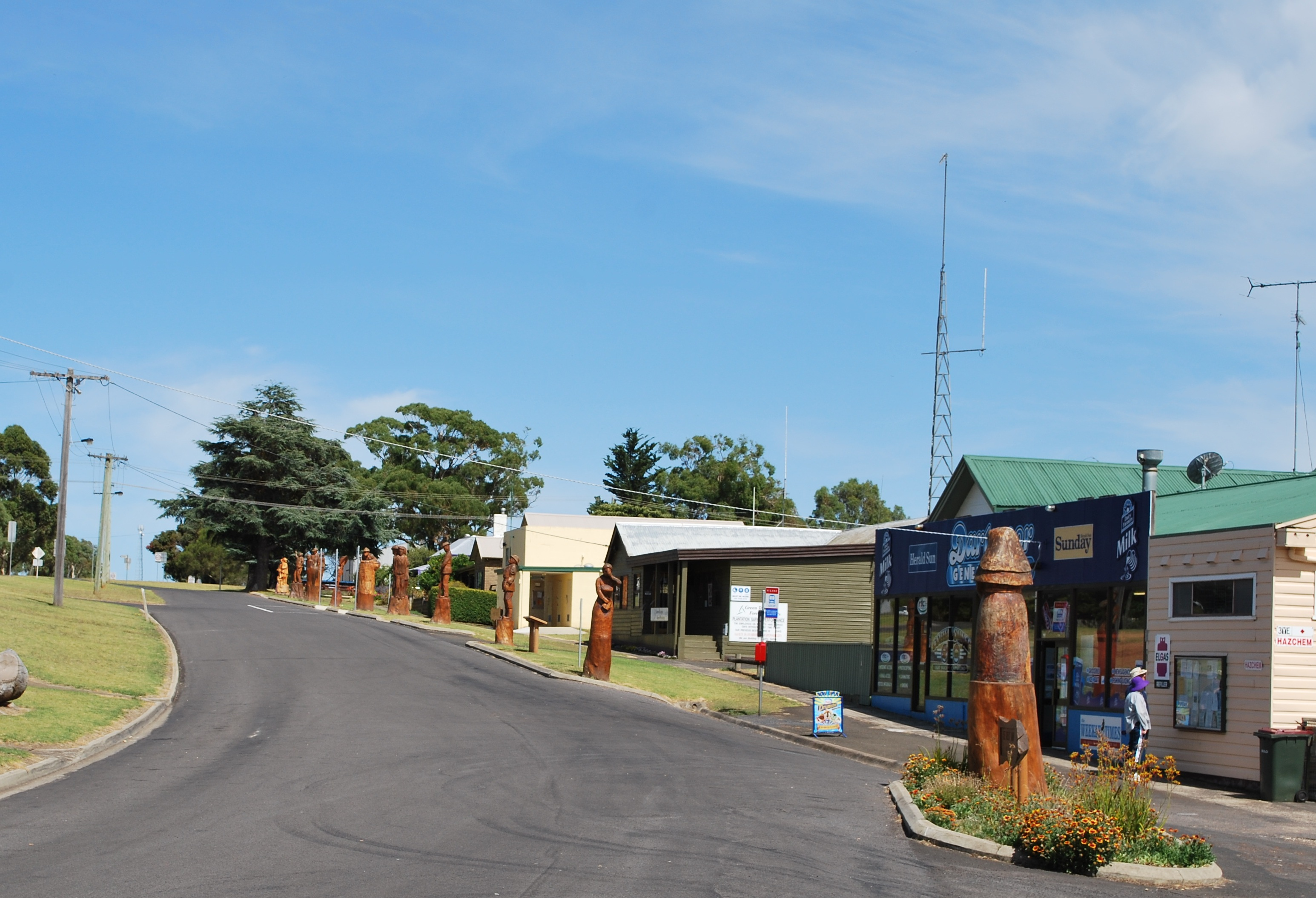 Wooden war memorial sculptures at Dartmoor, Victoria